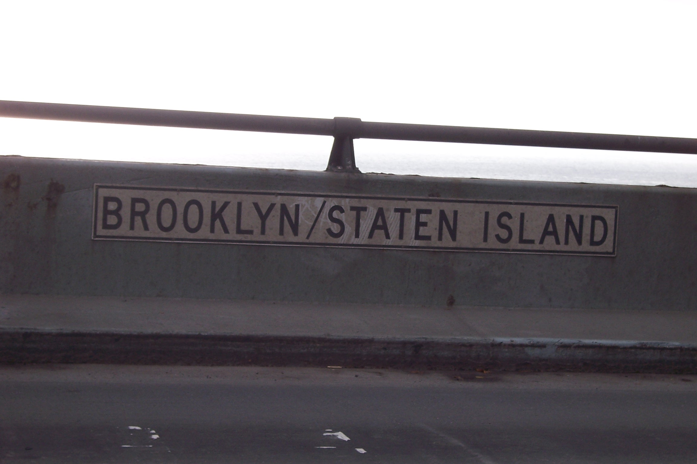 Verrazano Narrows Bridge, sign showing Staten Island / Brooklyn dividing line. Taken by me, 25 Nov 2004.